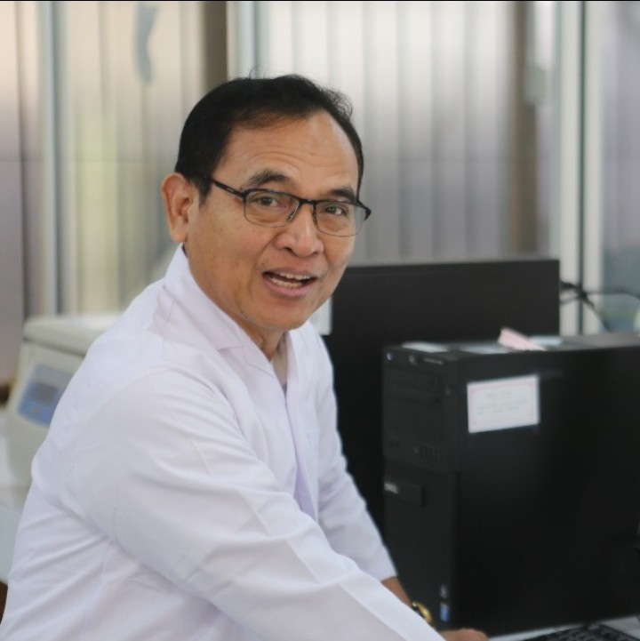 dr. Muchtar is on the laboratory